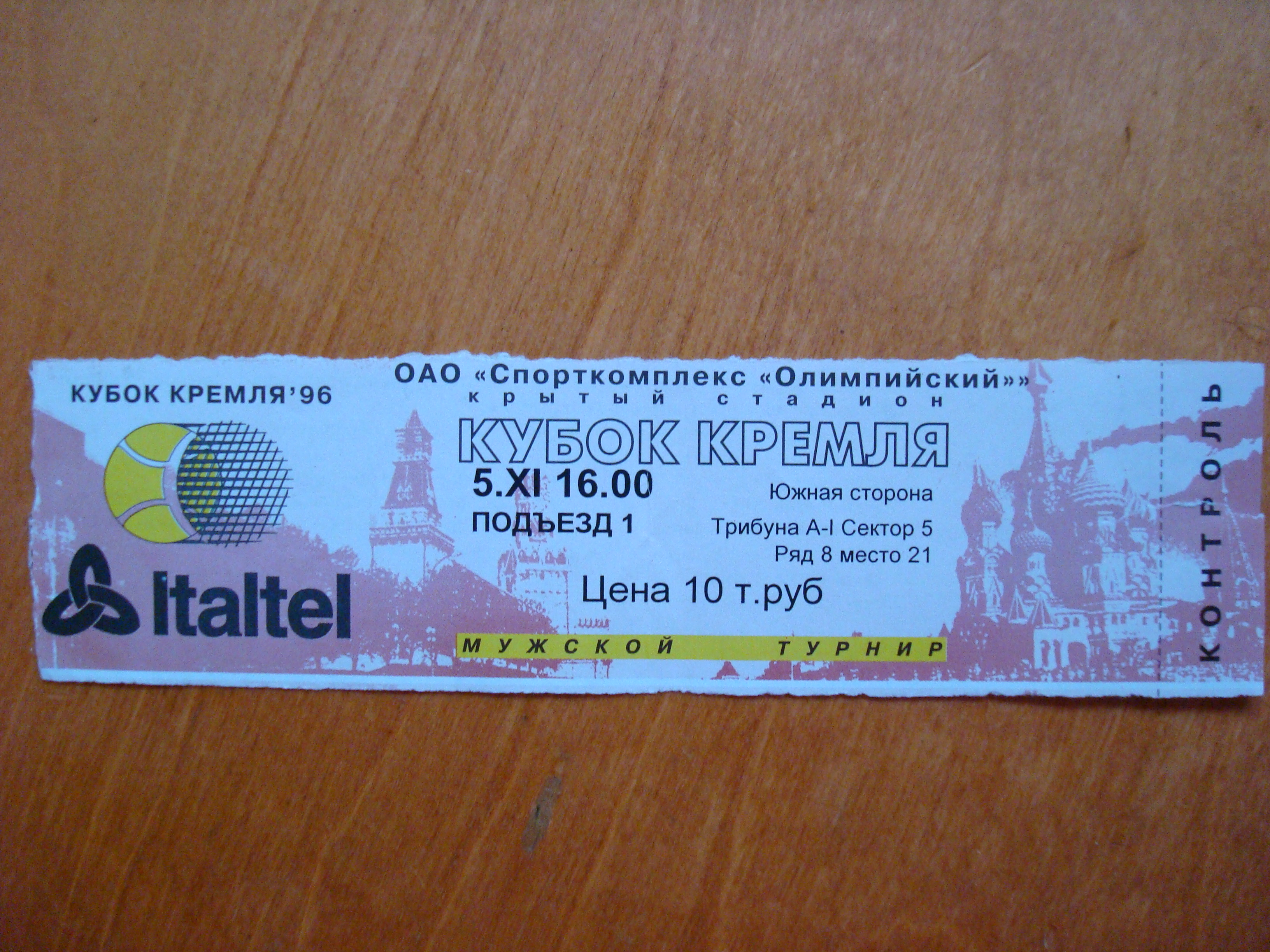 1996 tennis Kremlin Cup's ticket